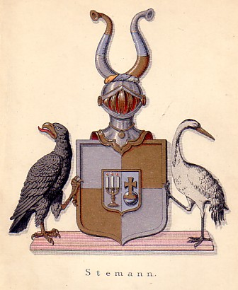 Coat of arms of the Stemann family